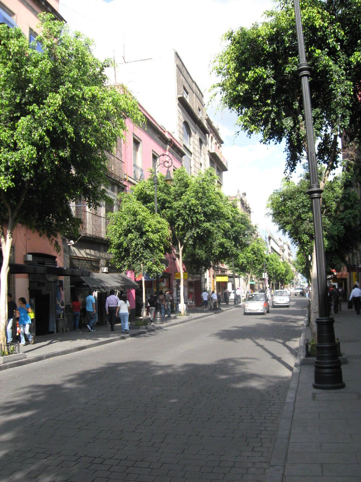 View of Tacuba Street looking east from Isabel la Catolica in the Centro of Mexico City